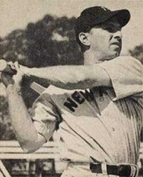 New York Yankees right fielder Tommy Henrich's 1948 Bowman Gum baseball card. Cropped border from original image.